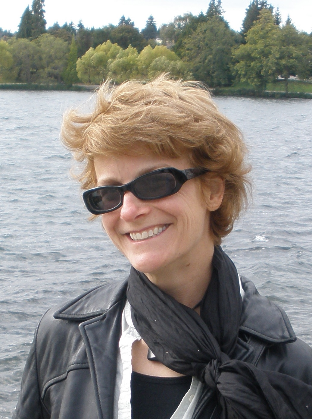 author Kij Johnson